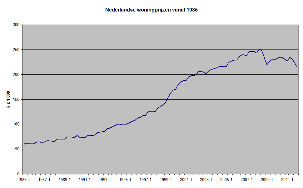 Graph of house prices in the Netherlands, used on Kredietcrisis, from 1985, in EUR 1000. Source: website NVM (Dutch association of real estate brokers)